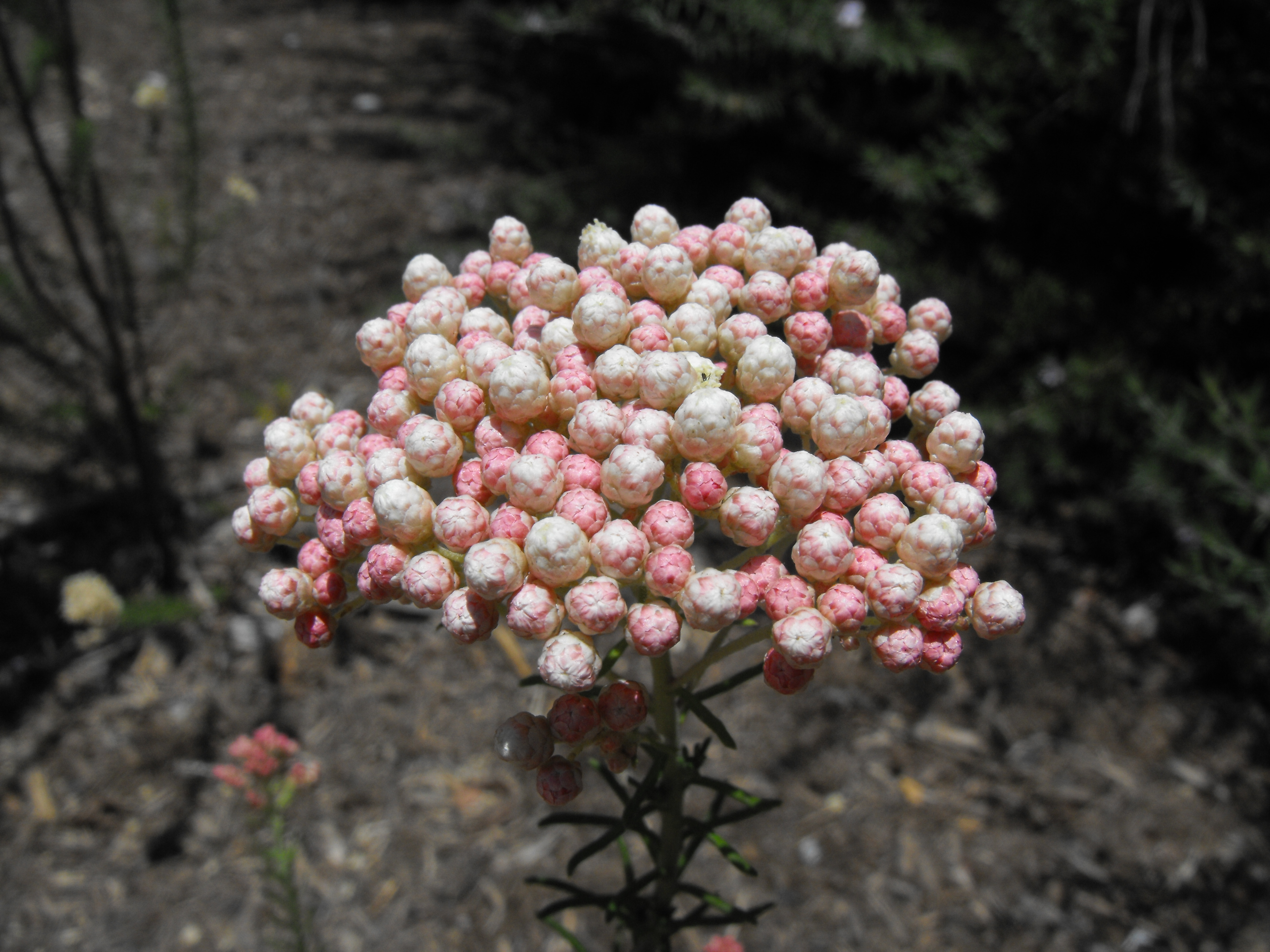 Ozothamnus diosmifolius at the Water Conservation Garden at Cuyamaca College in El Cajon, California, USA.